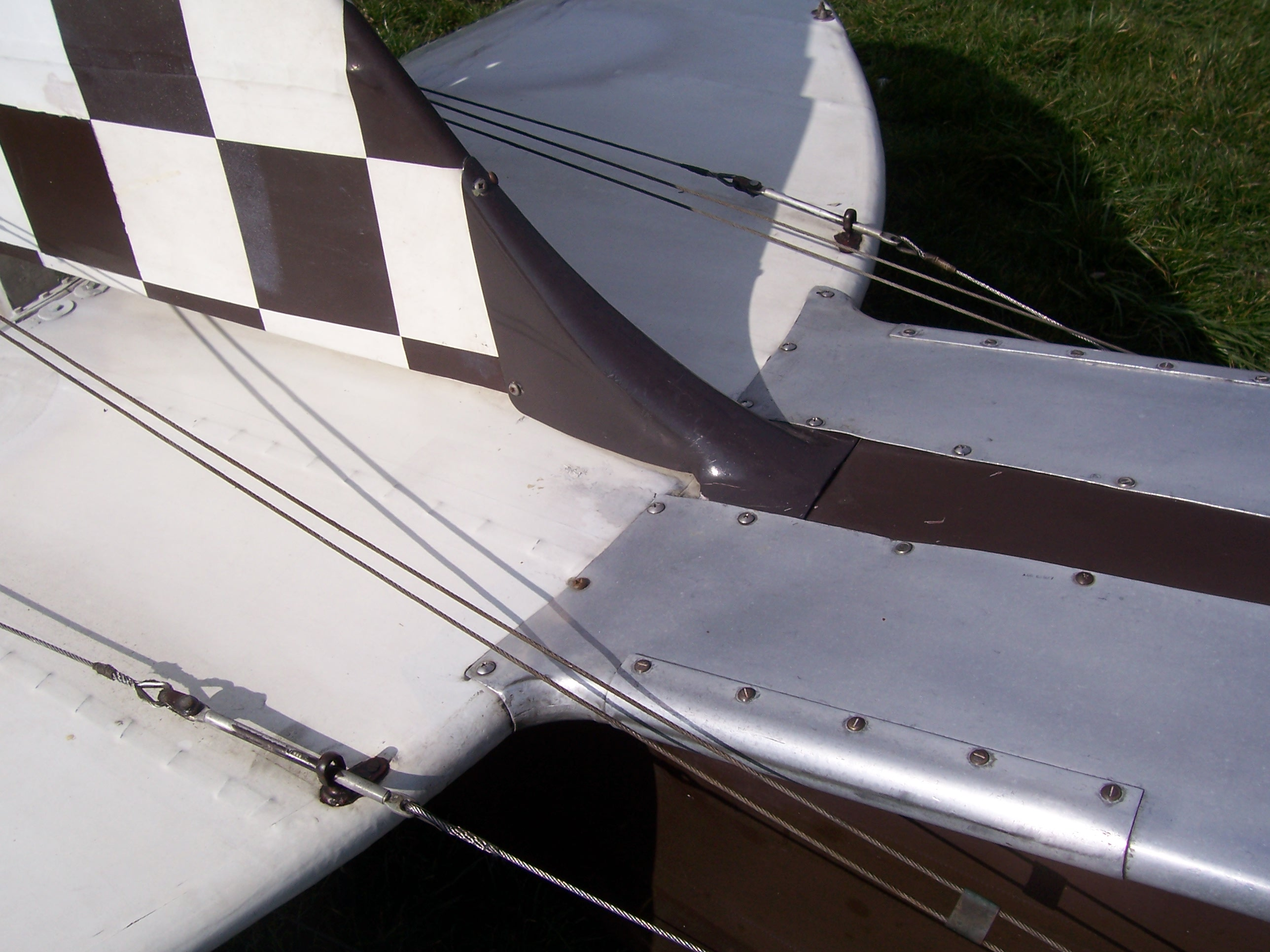 de Havilland DH82A Tiger Moth elevator and rudder control cables